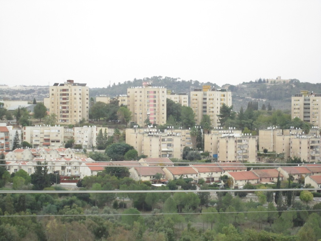 Landscape view, Cities in Israel